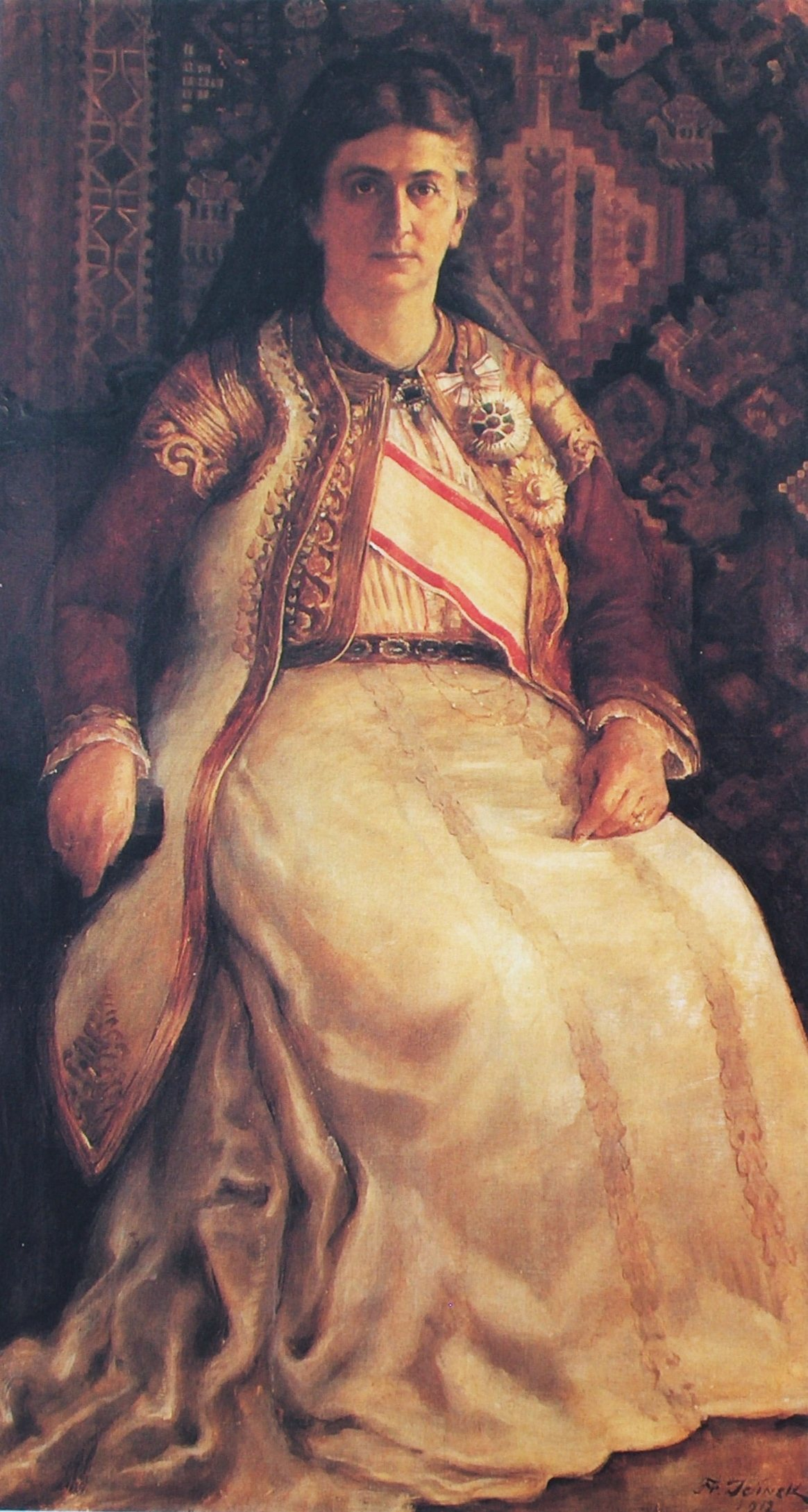 Her Majesty queen Milena Vukotić of Montenegro after her coronation on 28. august 1910Unknown její veličenstvo královna milena vukotić černohorská po své korunovaci 28. srpna 1910